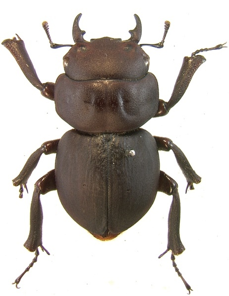 Apterocyclus honoluluensis, Mount Waimea, Kauai, Hawaii, 5,000 feet elevation, originally identified as the synonym Apterocyclus varians